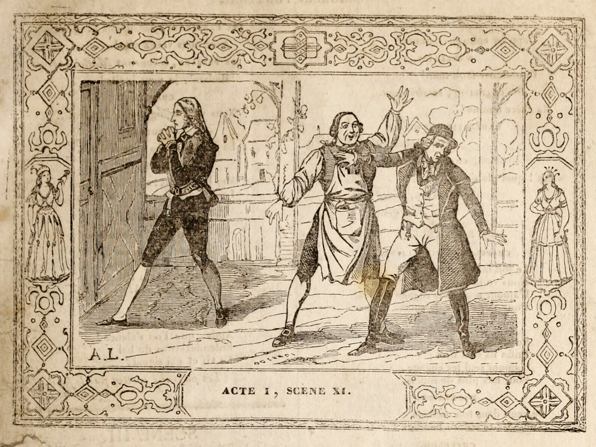 Le postillon de Lonjumeau. Illustration on cover of libretto by Adolphe Adam